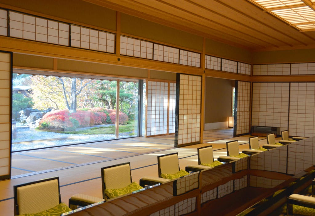 A Japanese Banquet Room Emblazoned with Goshichi no Kiri